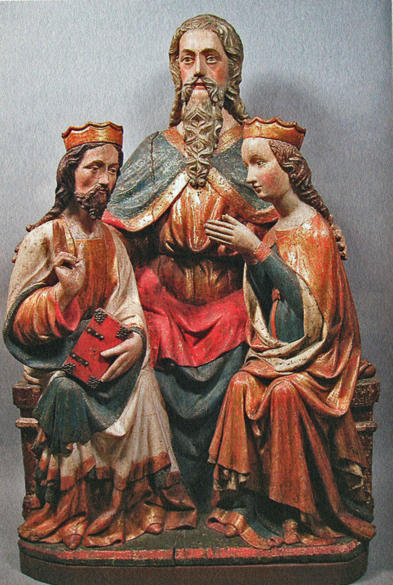 Coronation of the virgin Maria